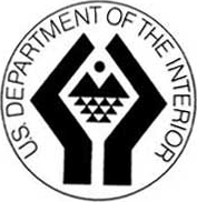 Old logo for the Dept. of the Interior.